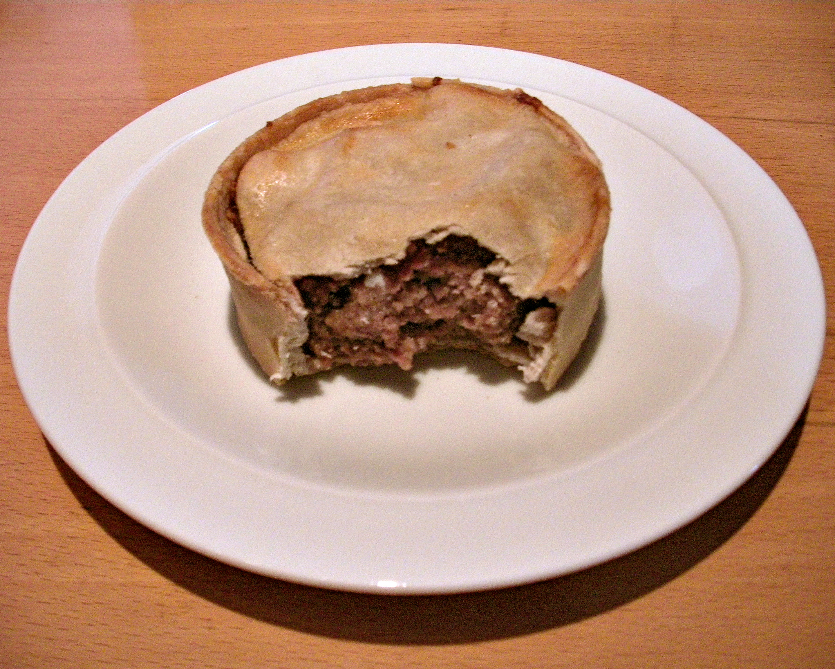 Scotch pie showing inside contents. Purchased from Dalbeattie Fine Foods (